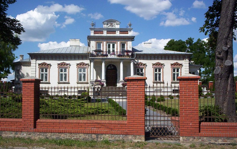 Building in Mszczonów (Masovia, Poland)